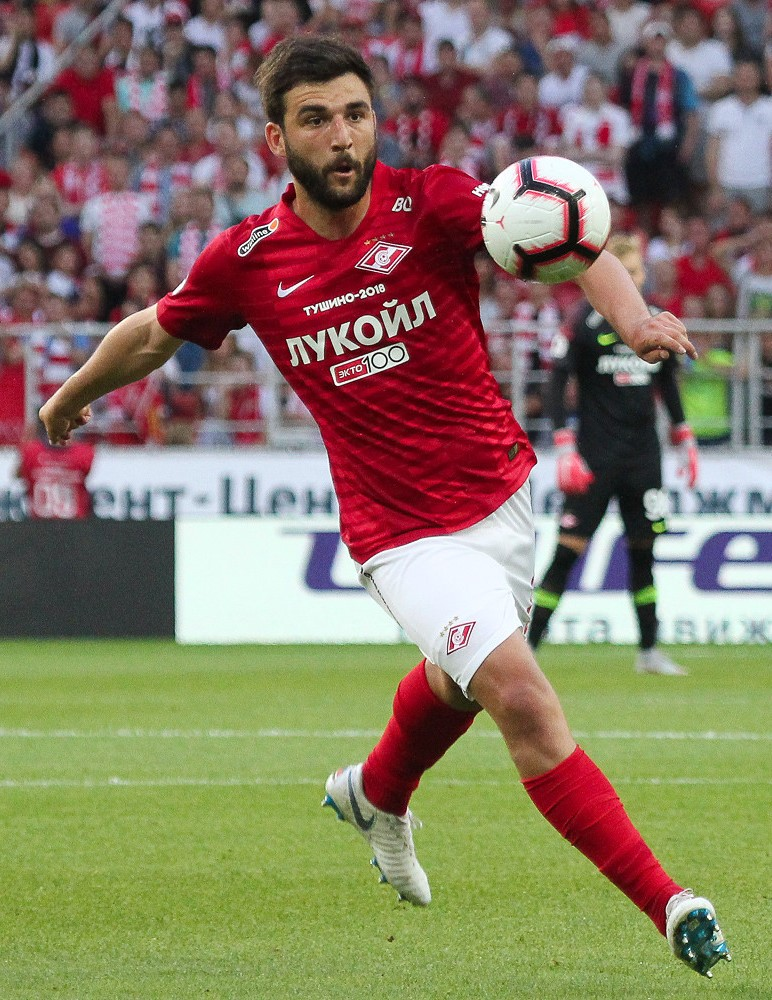 Georgi Dzhikiya